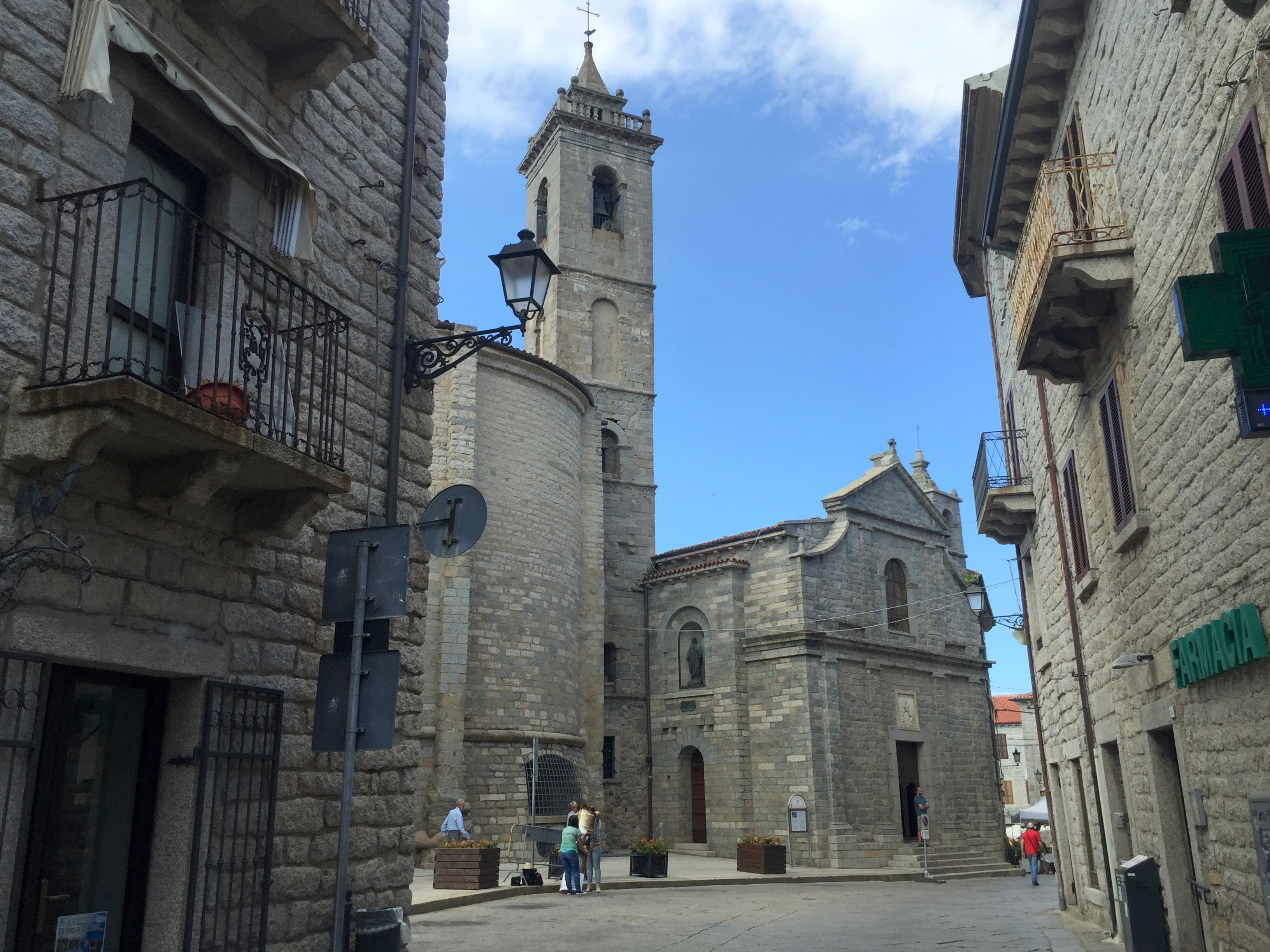 Tempio Pausania,Chiesa di Santa Croce